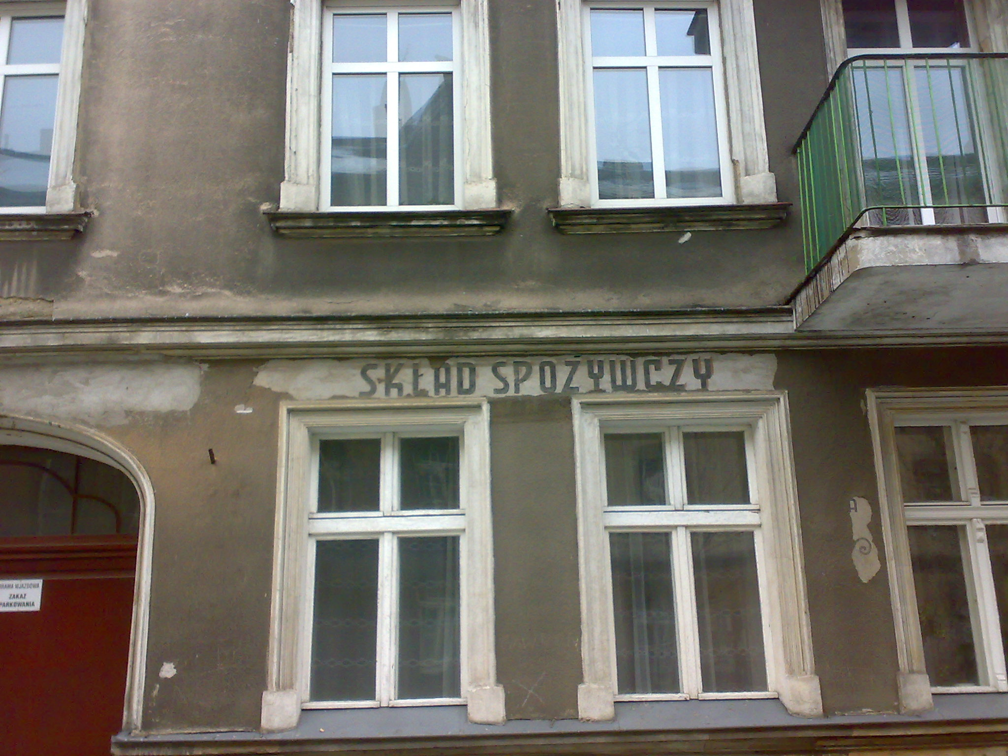 Fabryczna Street, Poznan.